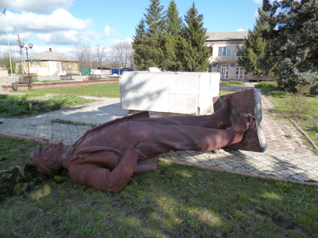 Fallen monument of Lenin.